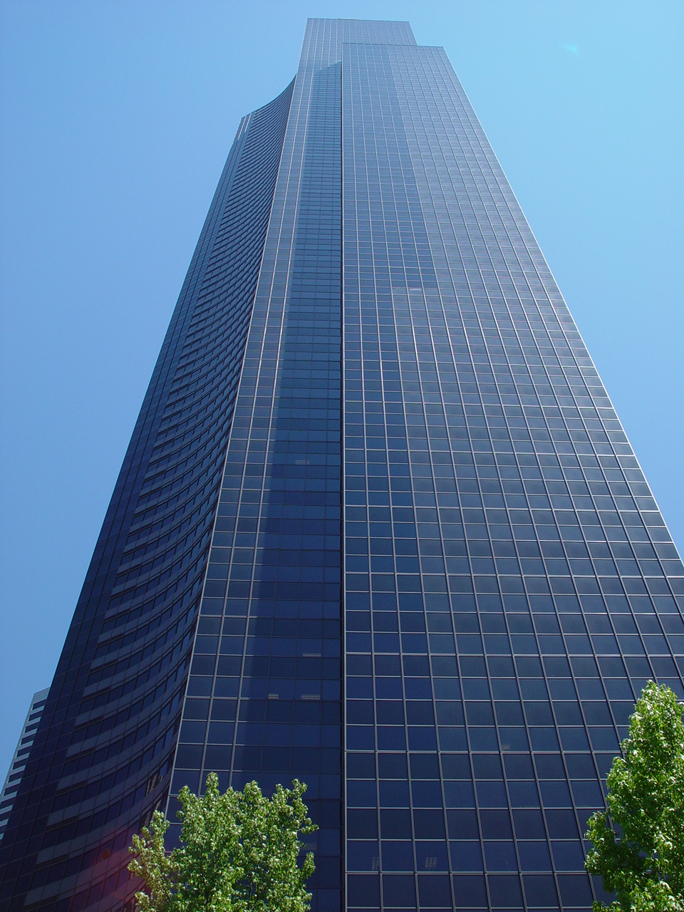 Bank of America Tower (later Columbia Center) in Seattle, taken by Nova77 in summer 2002.